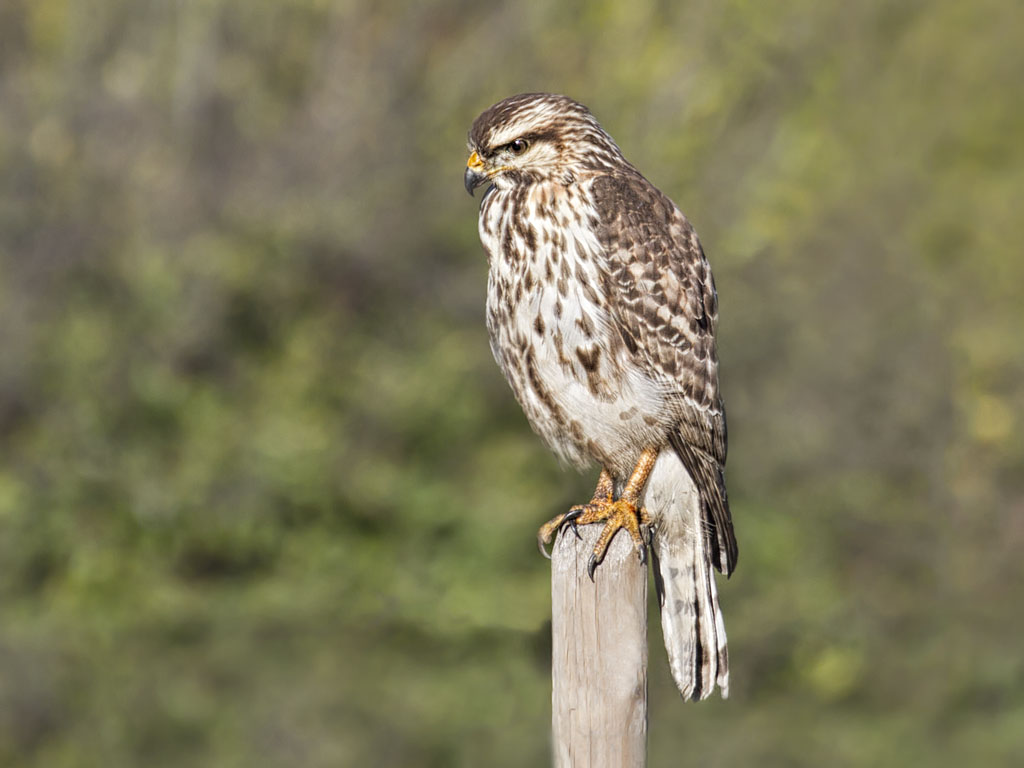 Buteo plagiatus, immature; Carpinteria, Santa Barbara county, California.